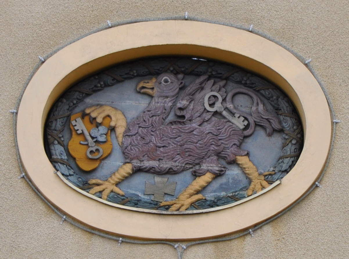 Trzebiatów badge's relief on the town hall, Poland